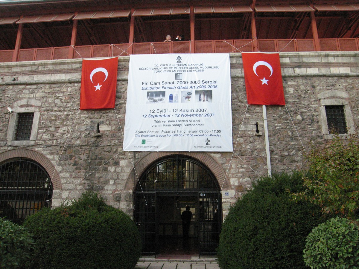 Main entrance of Turkish and Islamic Arts Museum, Istanbul, Turkey.